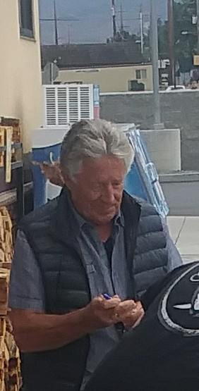 Retired racer Mario Andretti in Phoenix, Oregon on September 18, 2017.